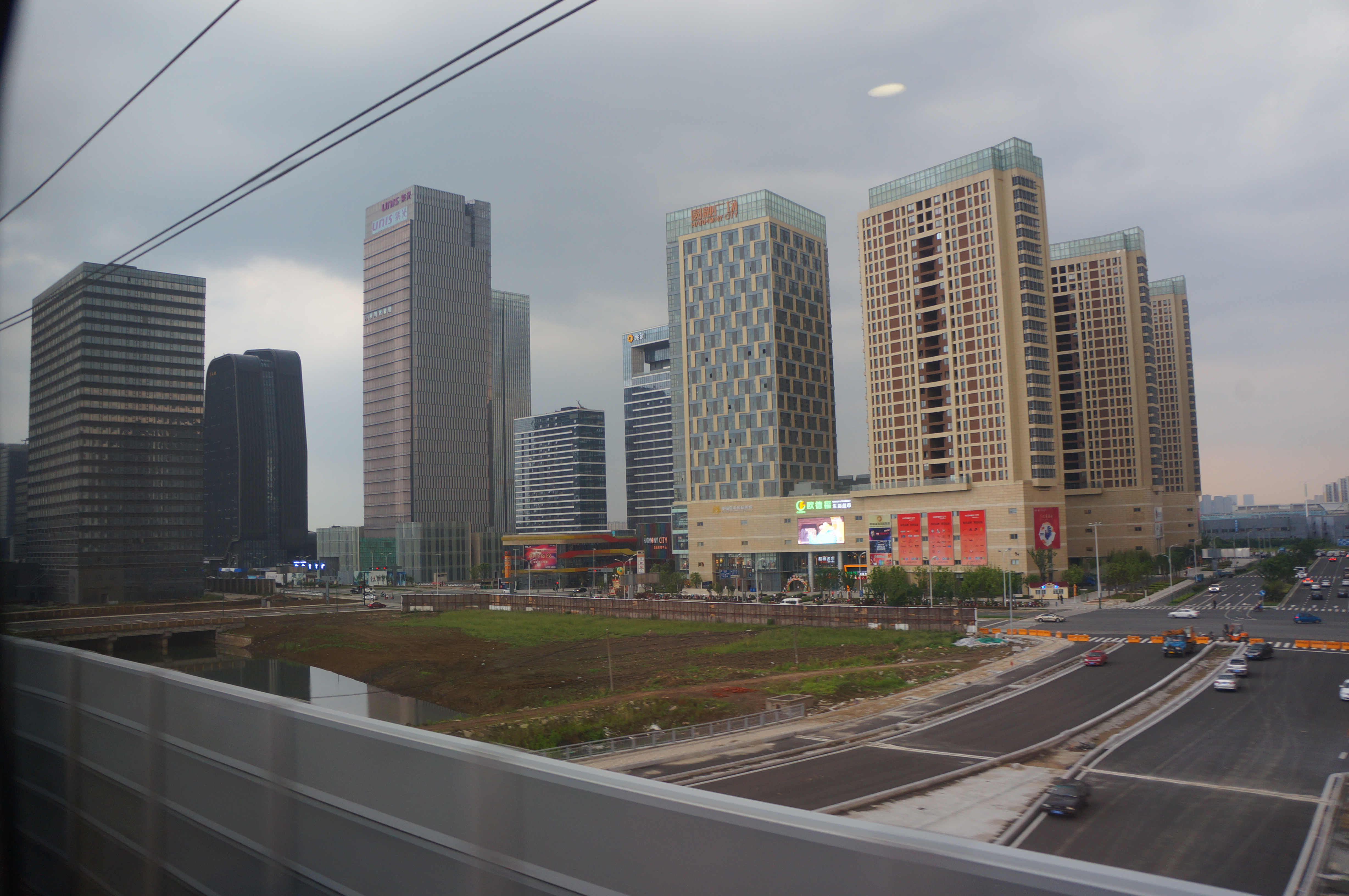 201705 Suzhou HSR New District